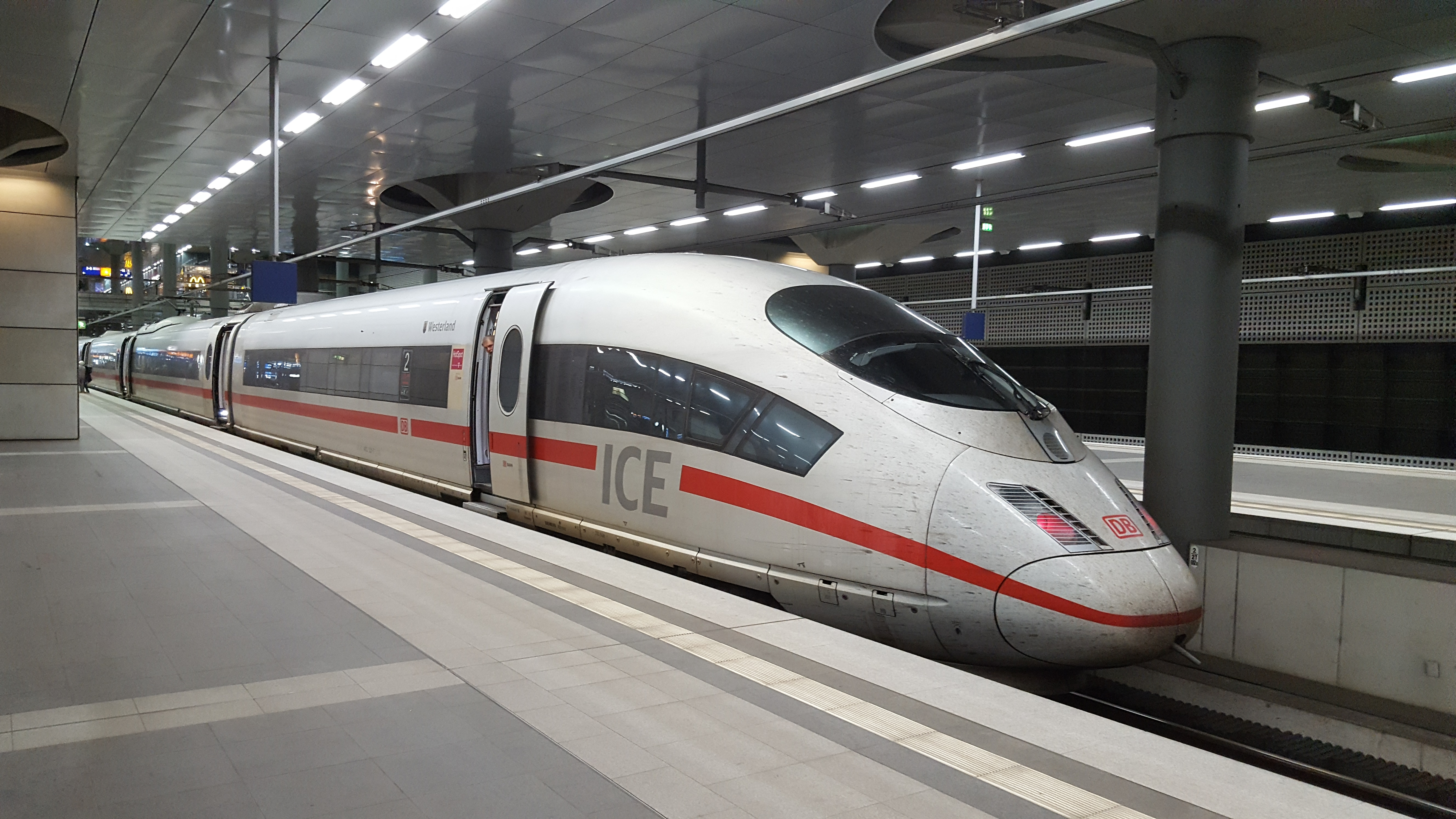 ICE 3 (BR 403, Tz 331 Westerland/Sylt) at Berlin Central Station